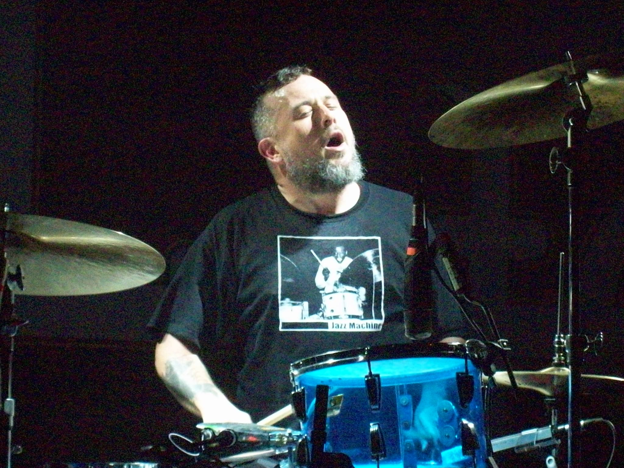 Gastor in Australia